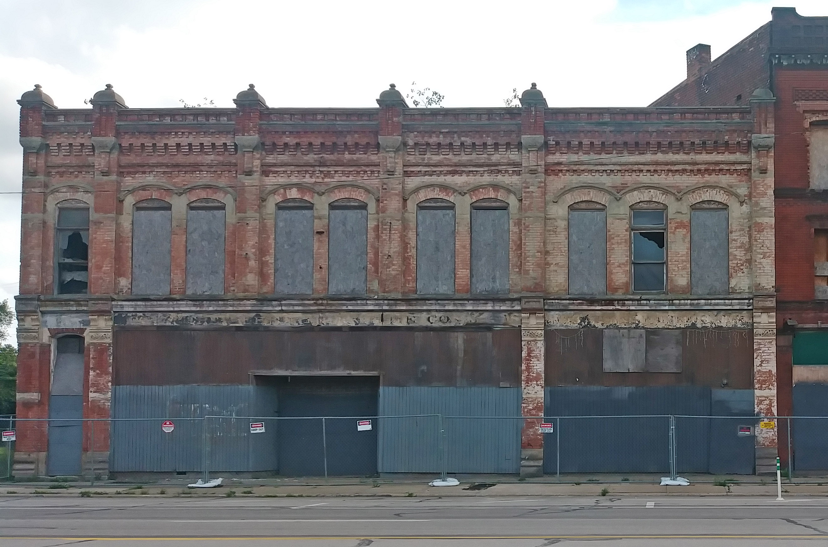 Reeber Building, 3363 Michigan Ave, Detroit in the Michigan Avenue Historic Commercial District